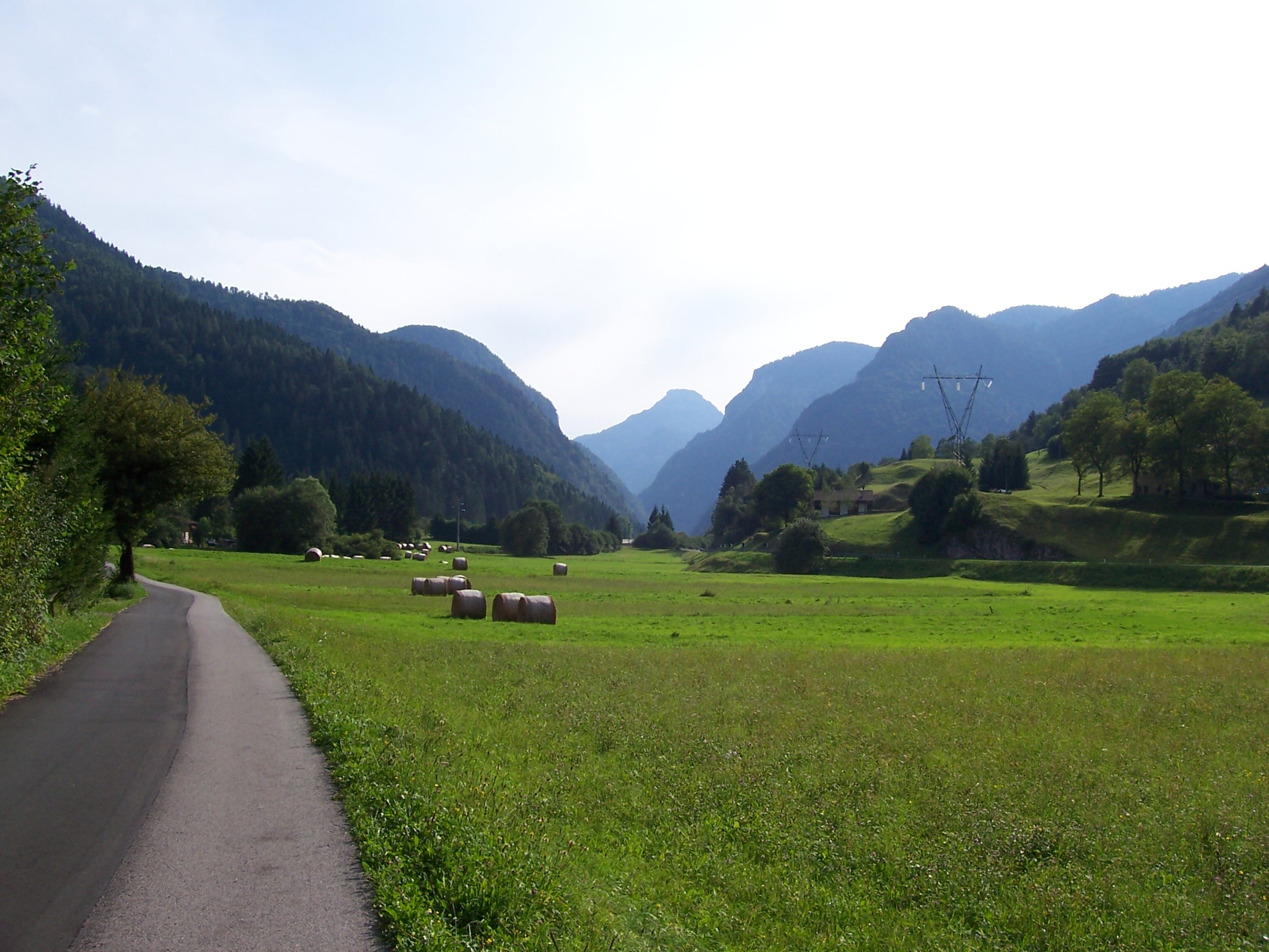 The Ampola valley from Tiarno di Sopra in Trentino